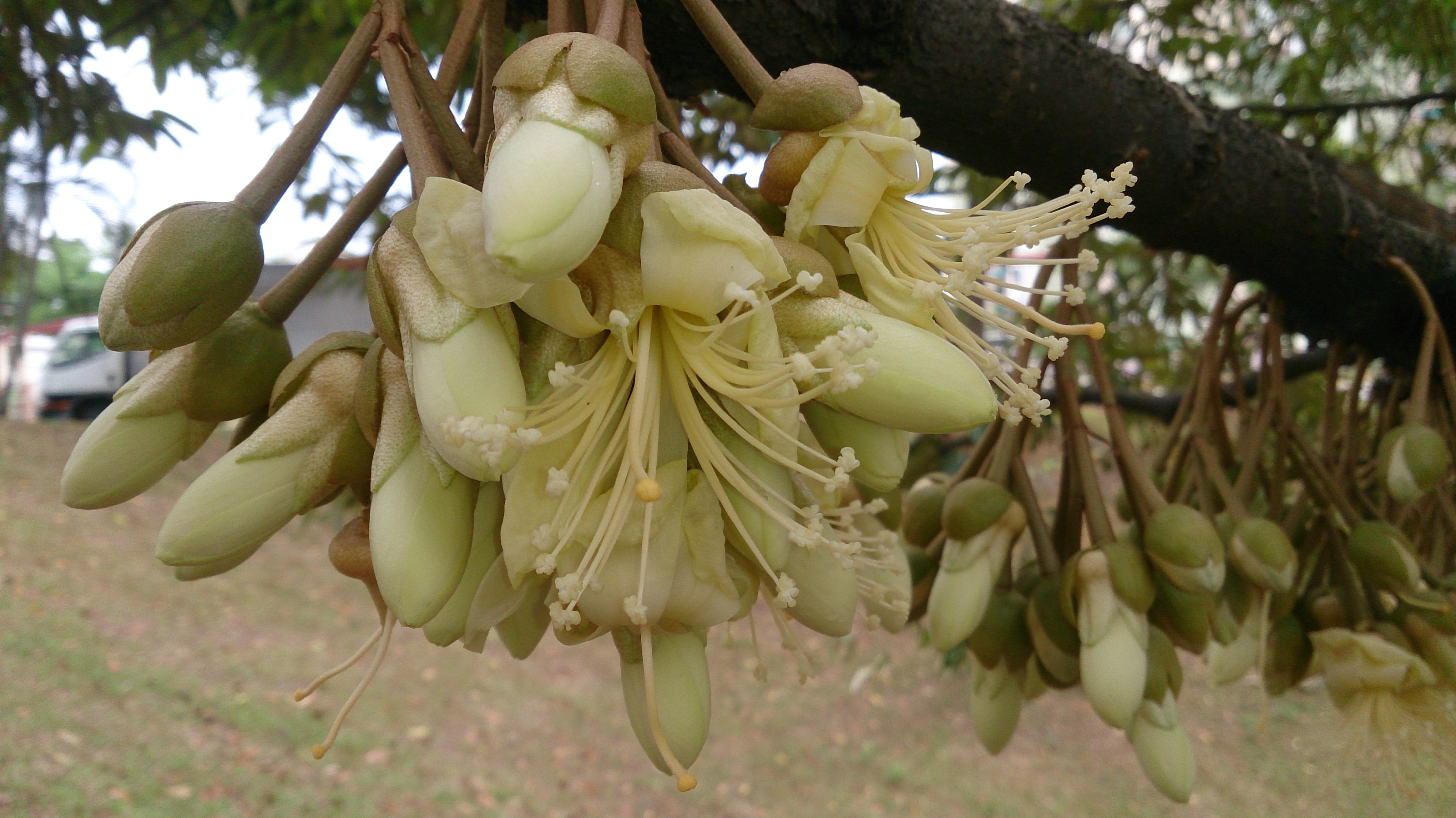 Durio sp.